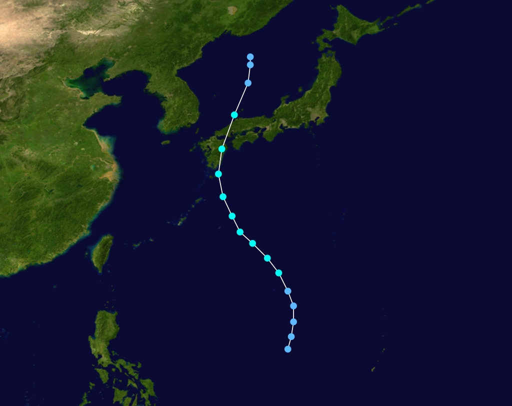 Tropical Storm Ofelia 1993 track. Uses the color scheme from the Saffir-Simpson Hurricane Scale.